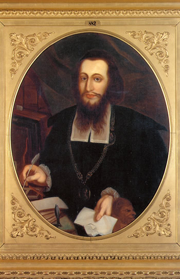 Portrait of Samson Wertheimer, Chief Rabbi of Hungary (18th century)